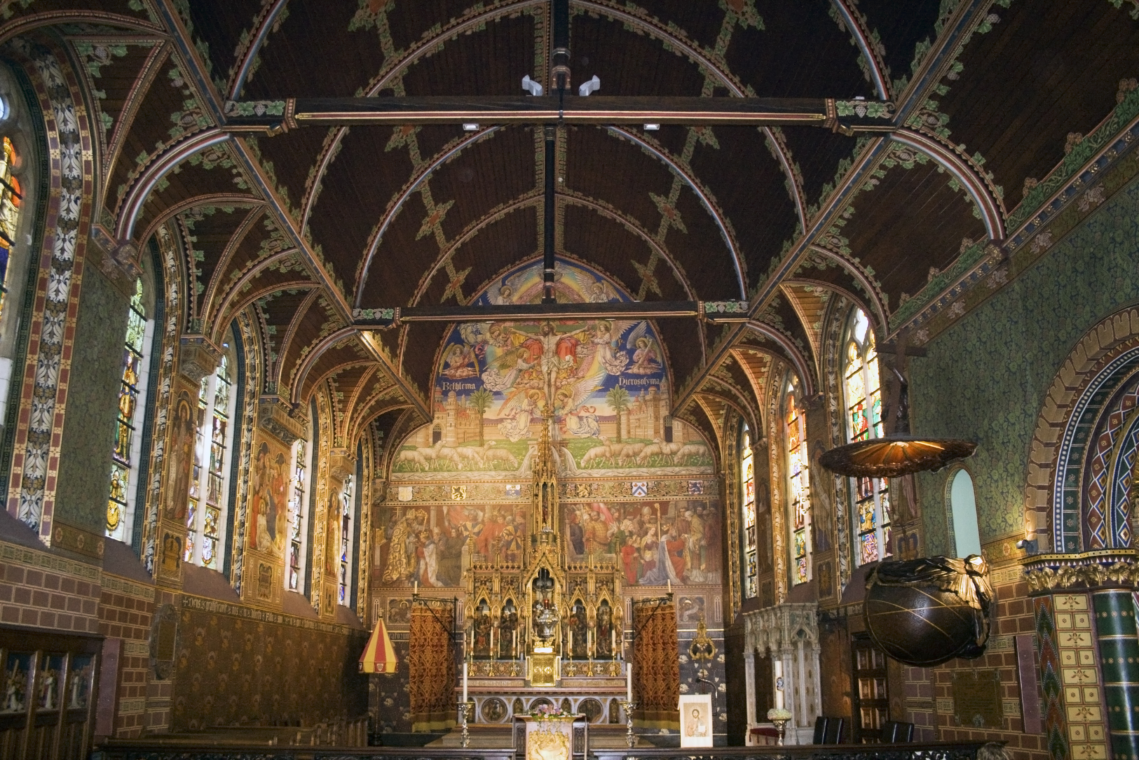 Main nave